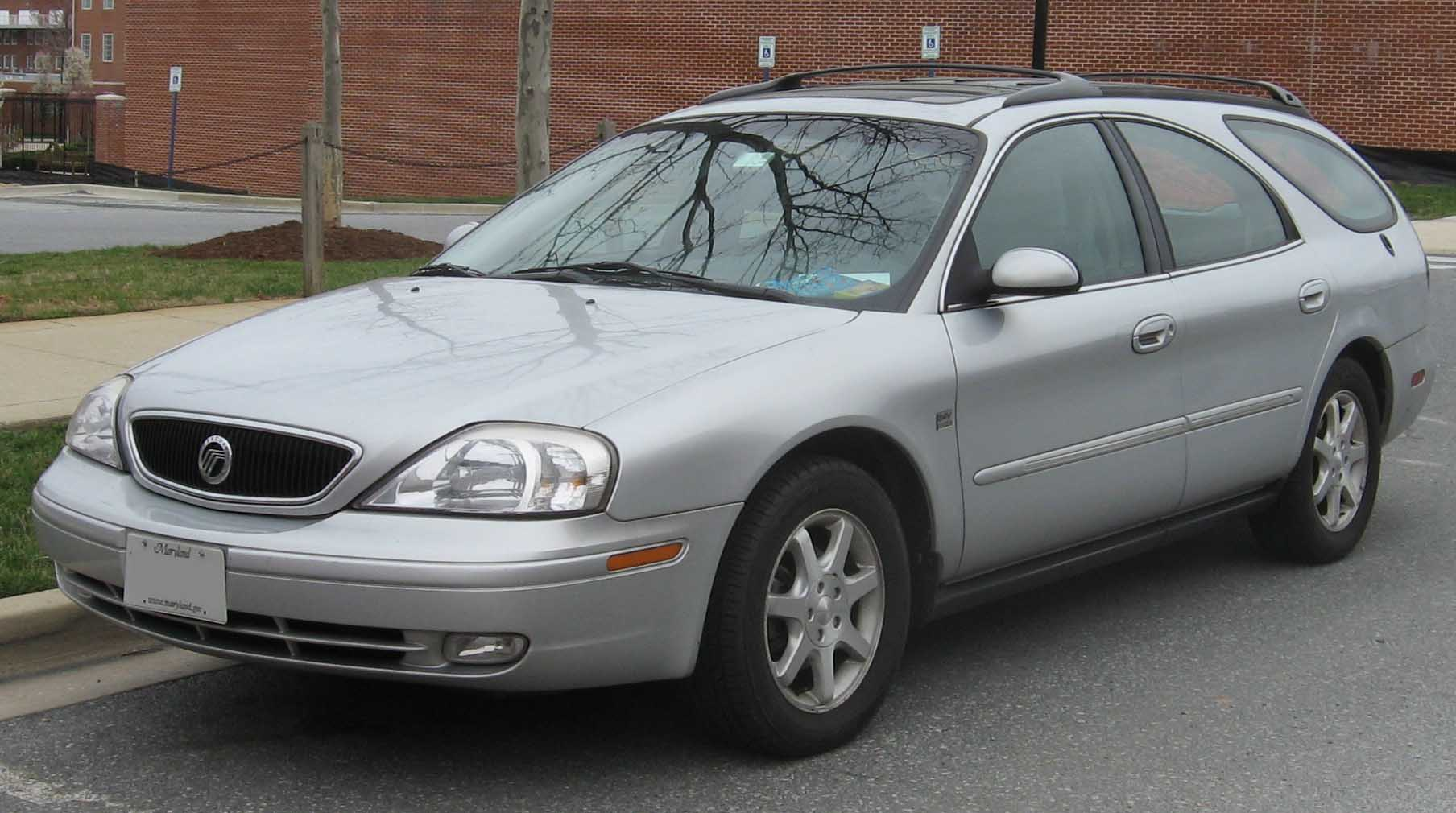 2000-2003 Mercury Sable photographed in College Park, Maryland, USA.